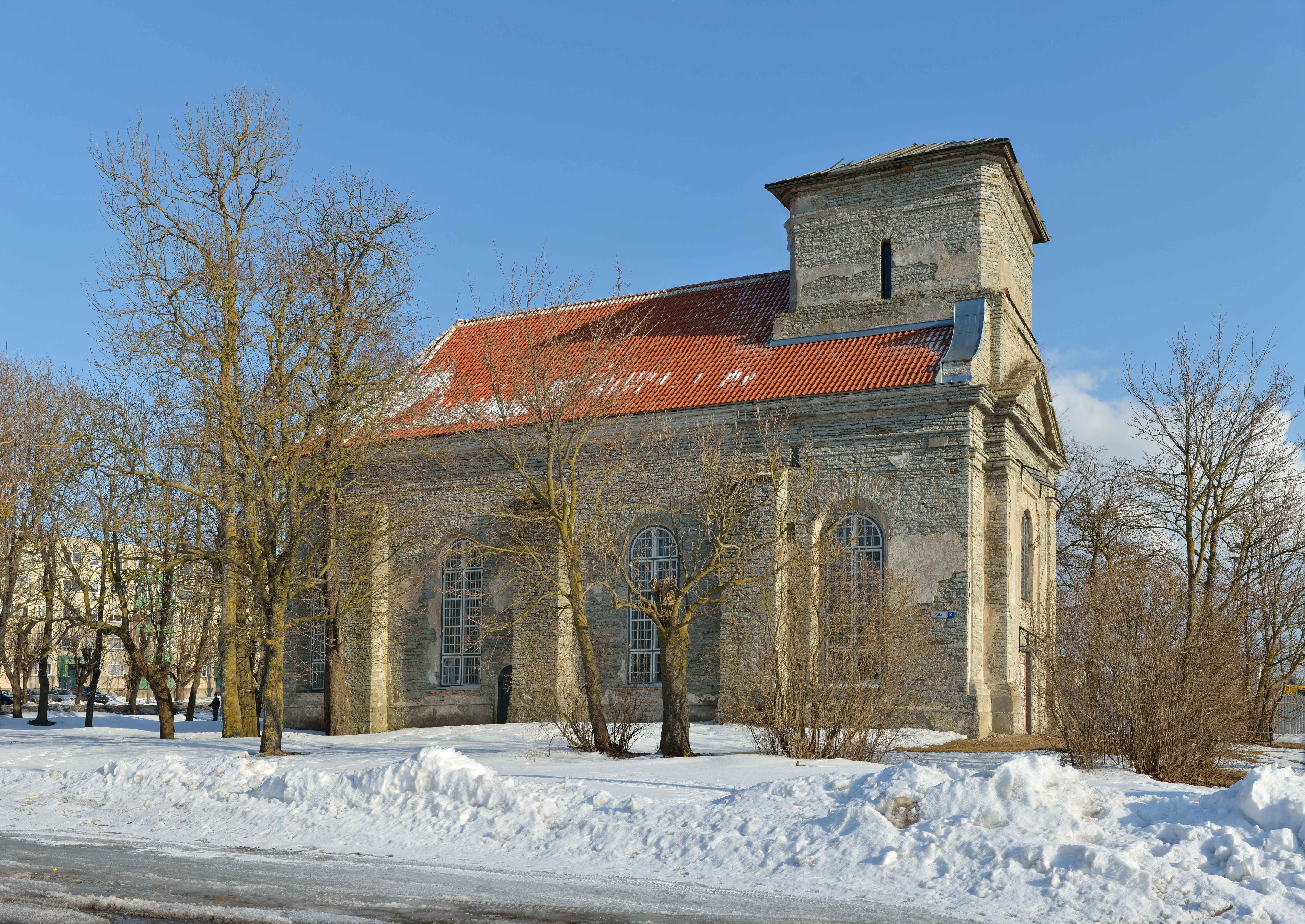 The Orthodox church of St George in Paldiski